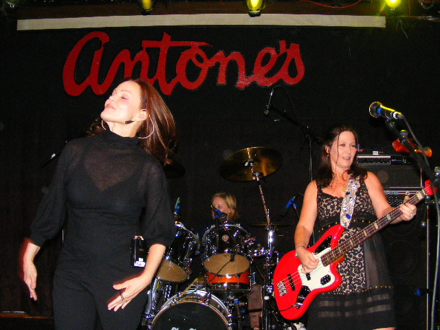 The Go-Go's at Antone's in Austin, TX. Belinda Carlisle (vocals), Kathy Valentine (bass) and Gina Schock (drums)